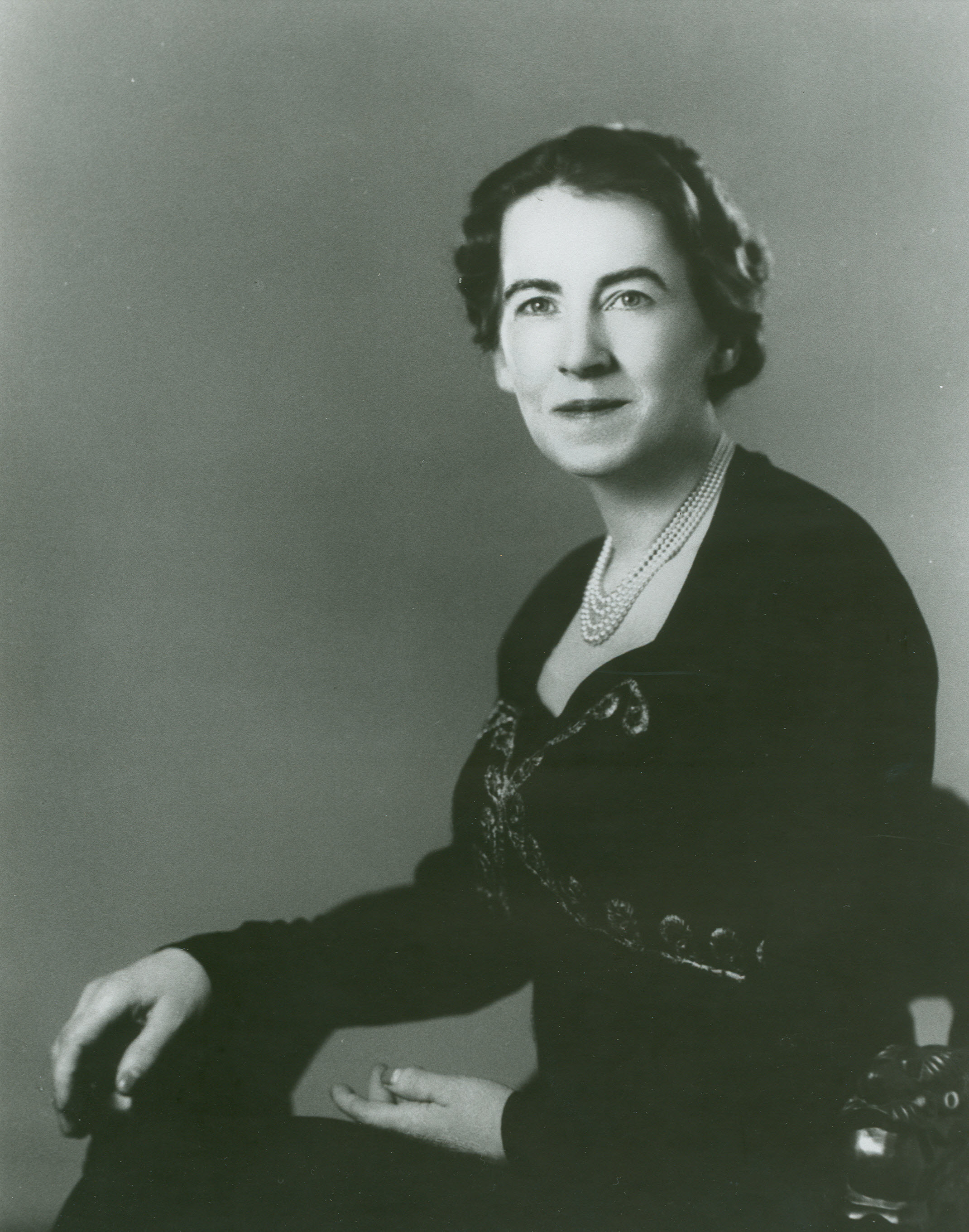 Former Congresswoman Elizabeth Hawley Gasque of South Carolina.